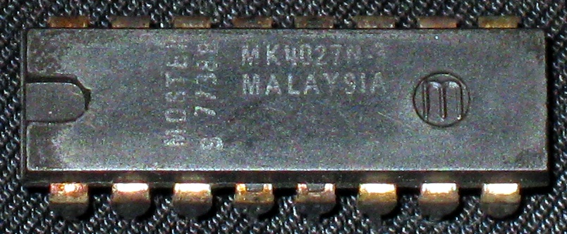 Mostek 4096 x 1 bit silicon gate DRAM IC MK4027N from 1977